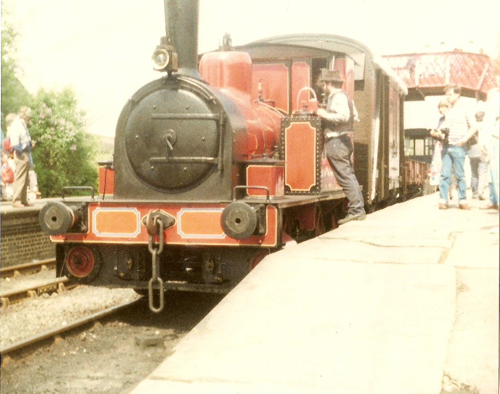 Baxter at Sheffield Park Station platform on the Bluebell Railway